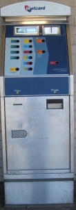 Metcard MVM 1 ticket machine 017-1194 at Laburnum outbound (down) platform.